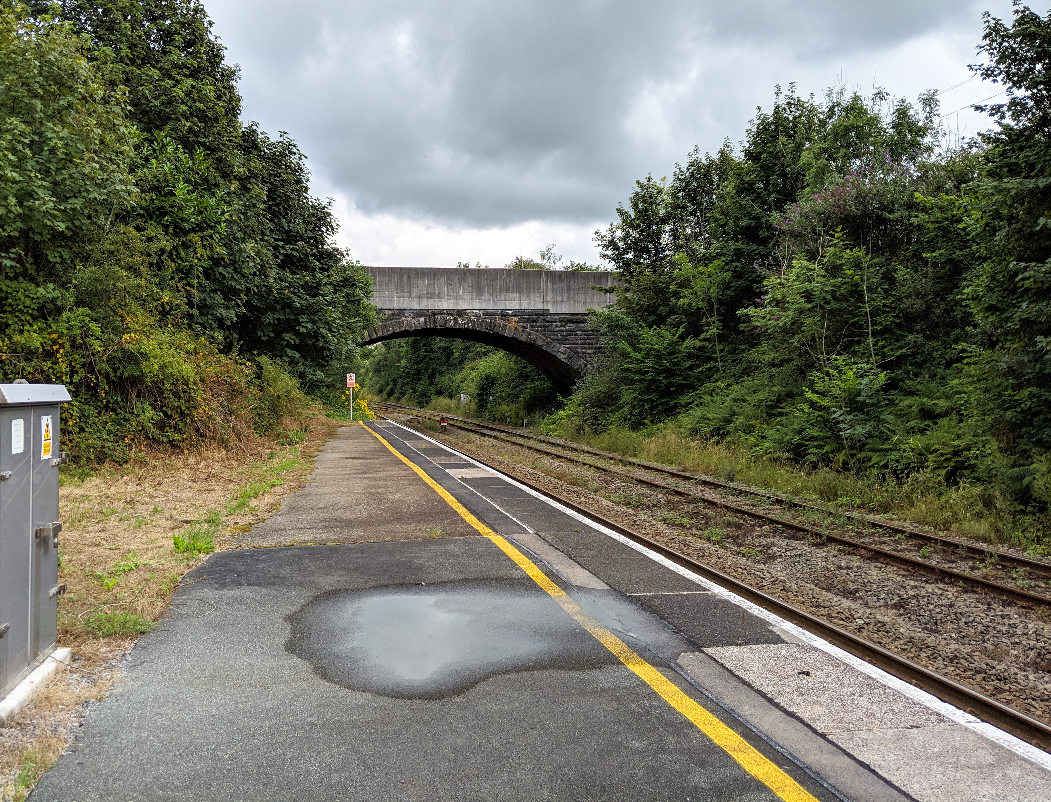 This is a photo of Clarbeston Road station, as well as the bridge going over it, from the side of the track. It was taken on the 4th August, 2019.